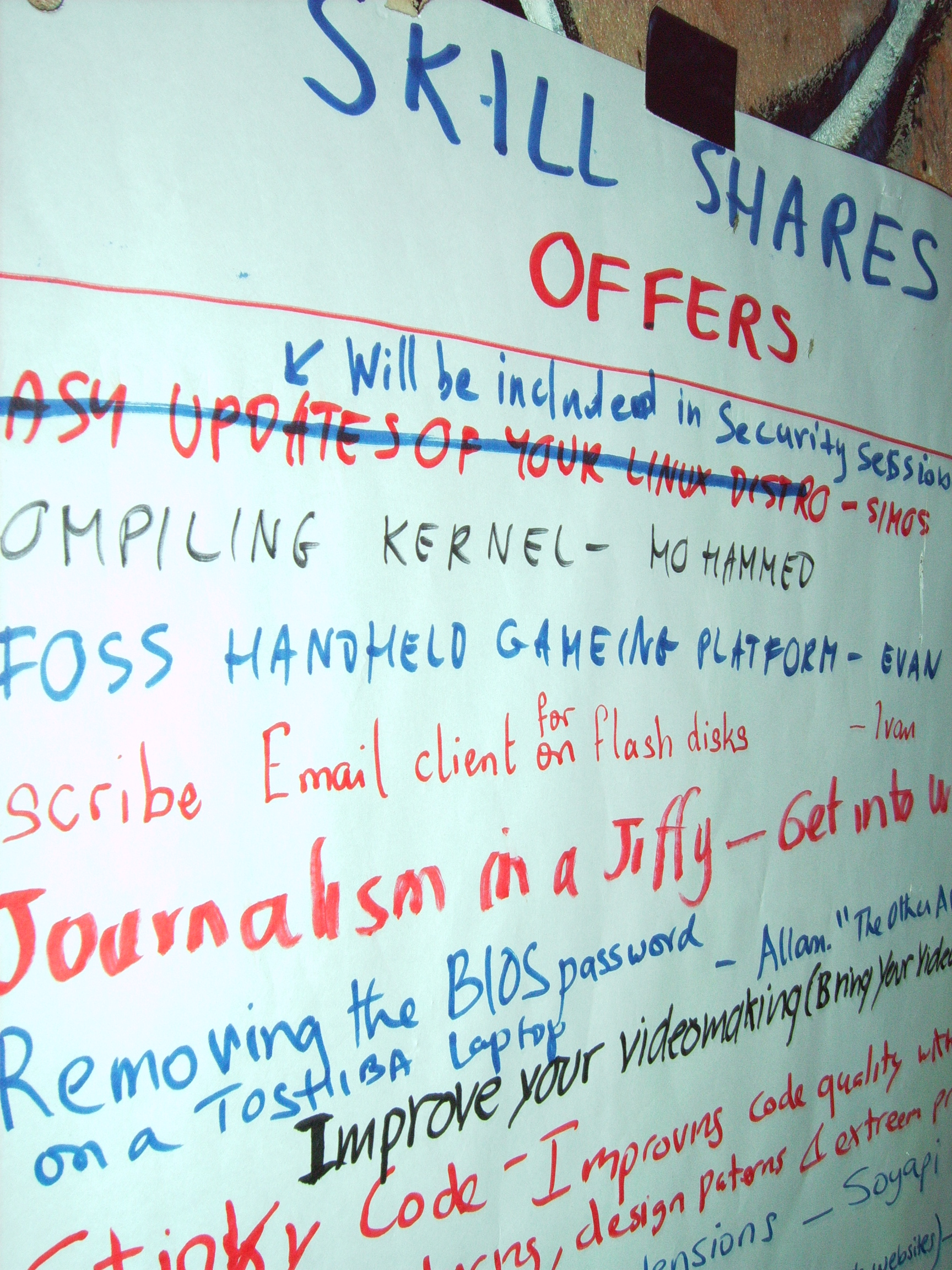 List of skill shares at the Africa Source 2 event, meant to share skills between FLOSS (Free/Libre and Open Source Software) and NGOs. Held in Kalangala island, Africa, January 2006. (Photo by Frederick "FN" Noronha) GFDL license by the photographer.